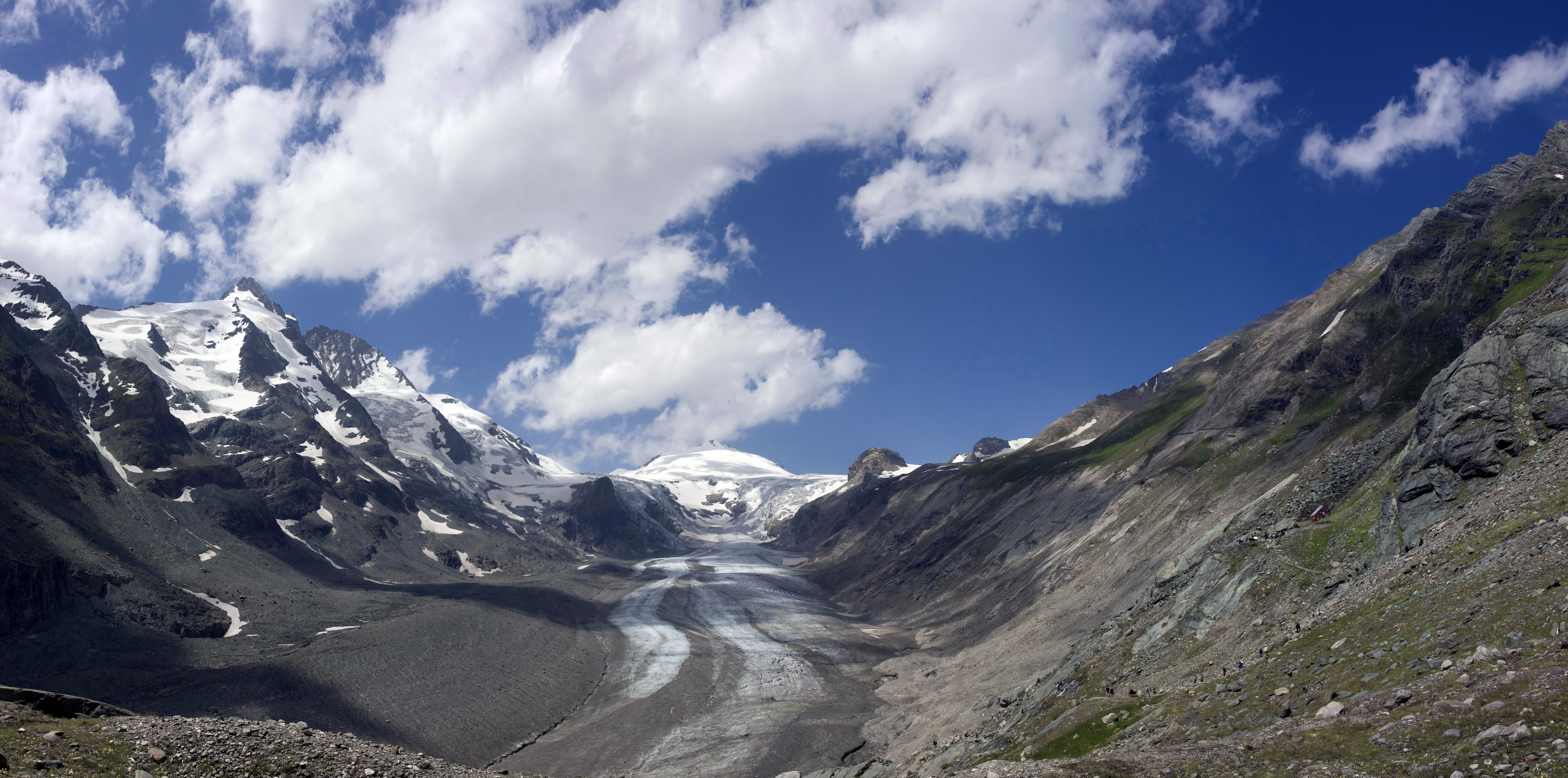 Pasterze Glacier